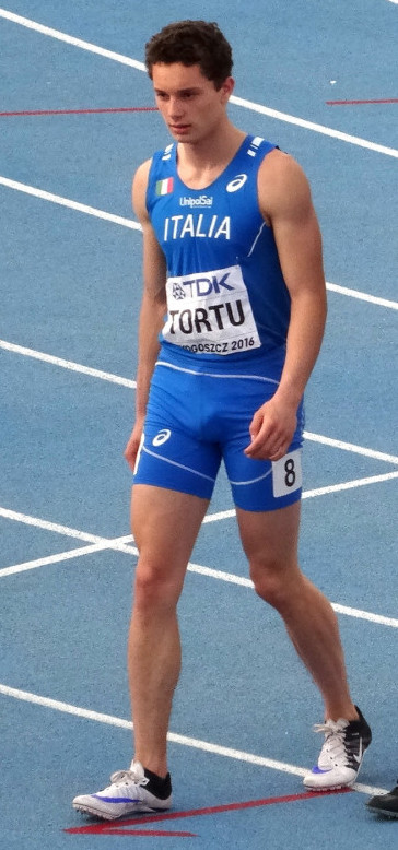 2016 IAAF World U20 Championships in Bydgoszcz, 4x100m relay men final, Italian sprinter Filippo Tortu.